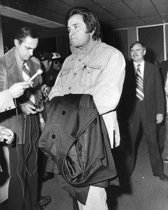 PSA Photo Collection Image Johnny Cash Repository: San Diego Air and Space Museum Archive